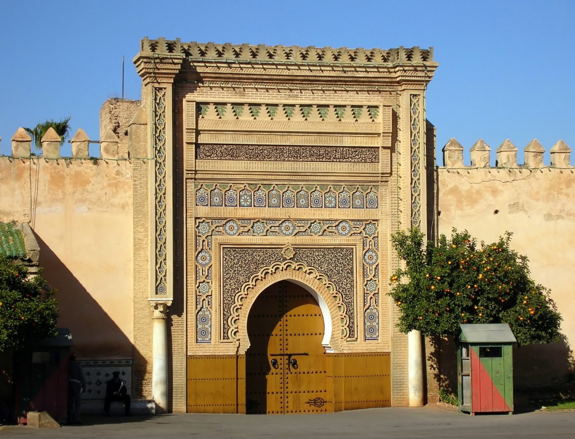 Gate of Royal Palace, Meknes, Morocco